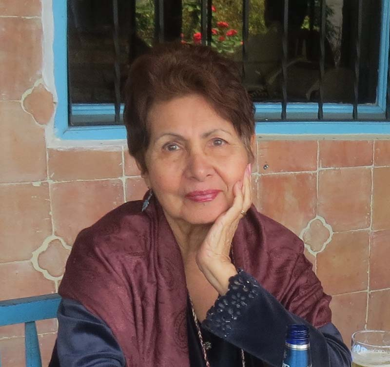 Photo of the Venezuelan writer Mariela Arvelo, taken in 2014.